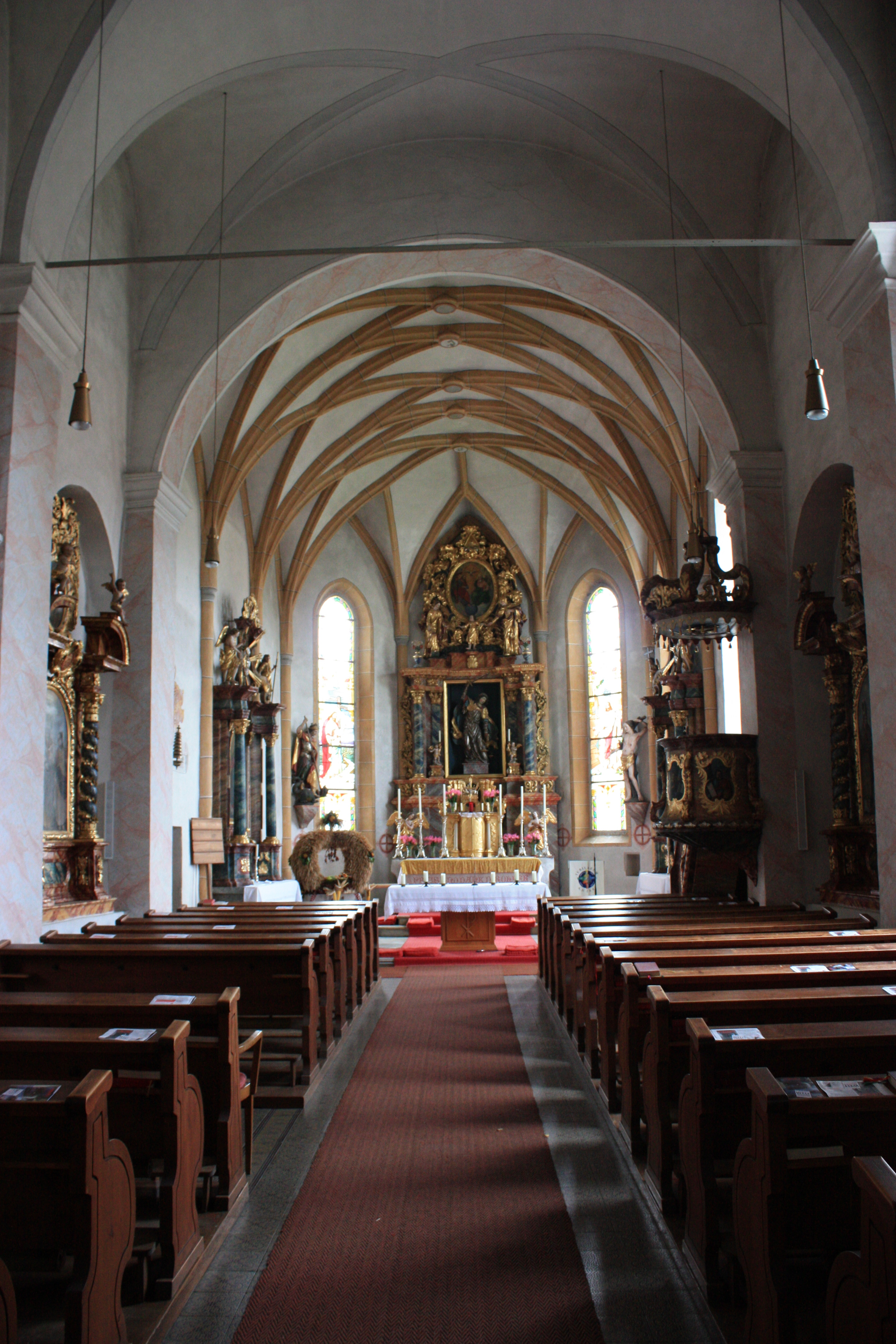 Parish church Saint Michael - Interior Locality: Sankt Michael im Lavanttal Community:Wolfsberg